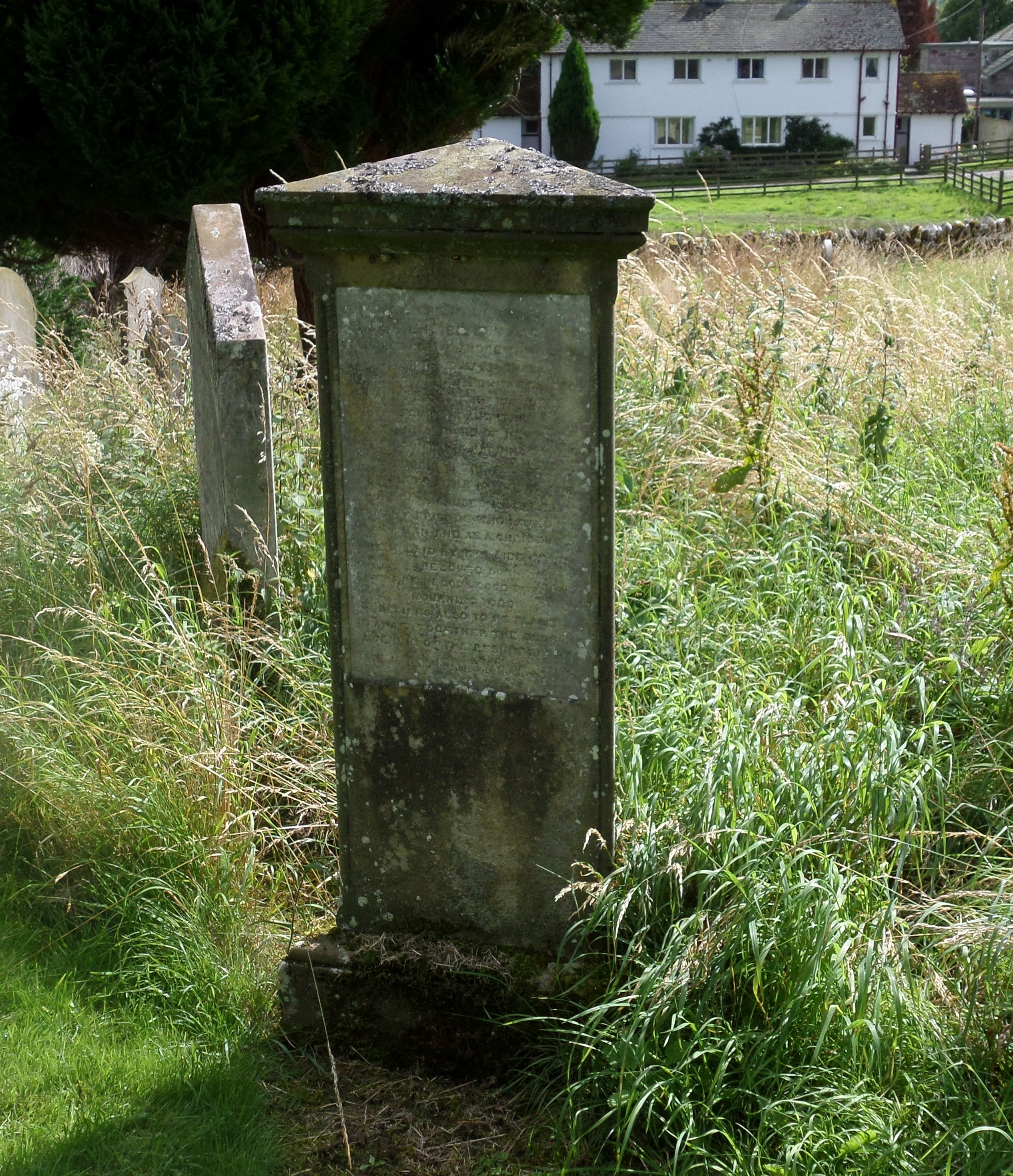 Robert Wauchope's gravestone, Dacre, Cumbria. Inventor of the time ball. This stone is unusual in being triangular. He died at Dacre Lodge.